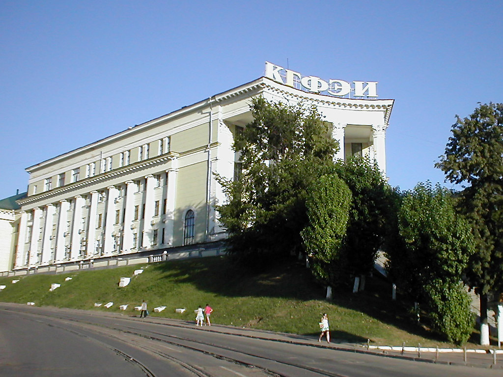 KSFEI building in Kazan